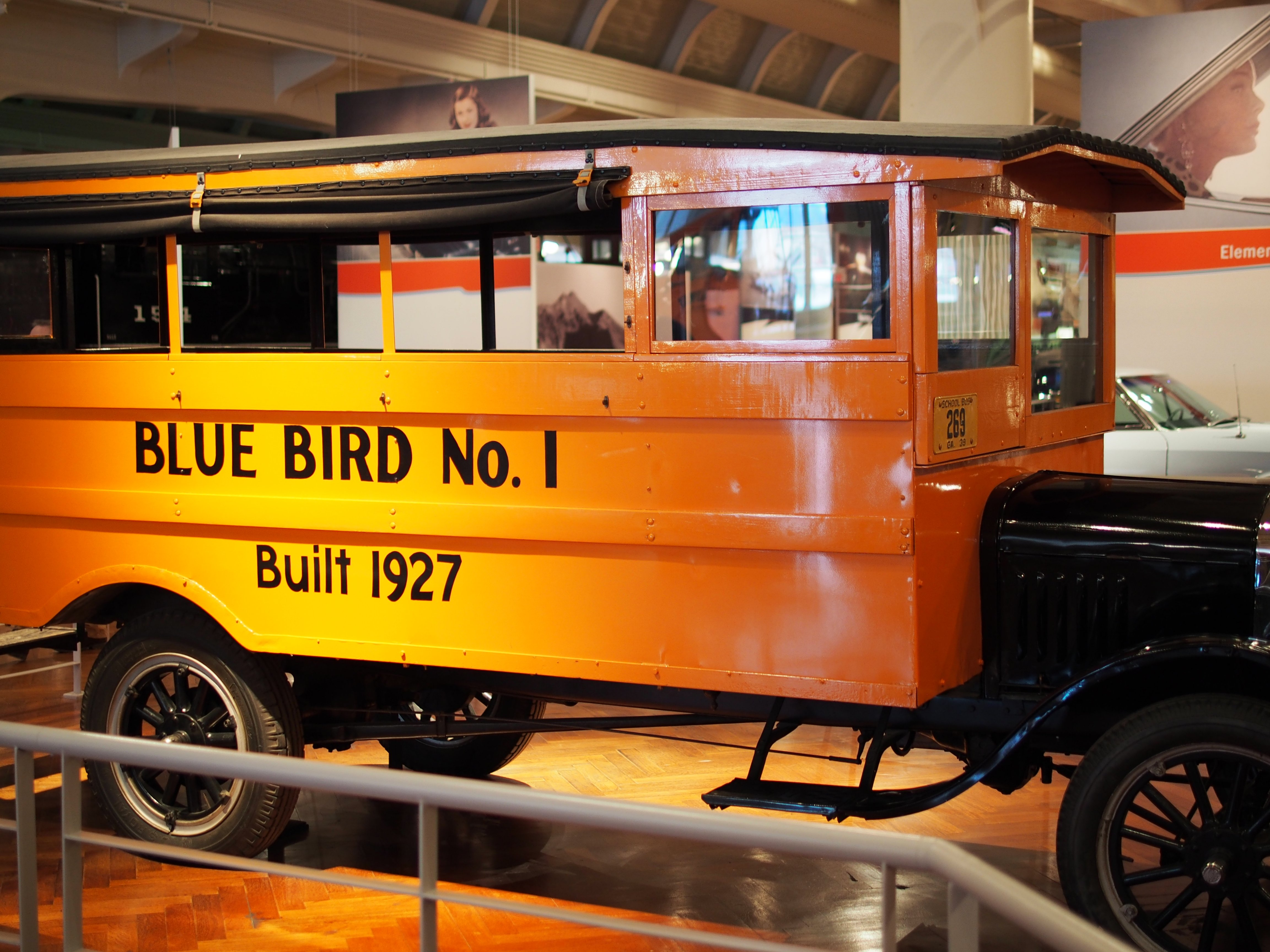 A photograph of a school bus at the Henry Ford Museum in Dearborn, Michigan. Constructed in 1927, the bus is the first body built by Blue Bird Body Company; it is mounted on a 1927 Ford Model T chassis. It is also considered the oldest known school bus in the United States.